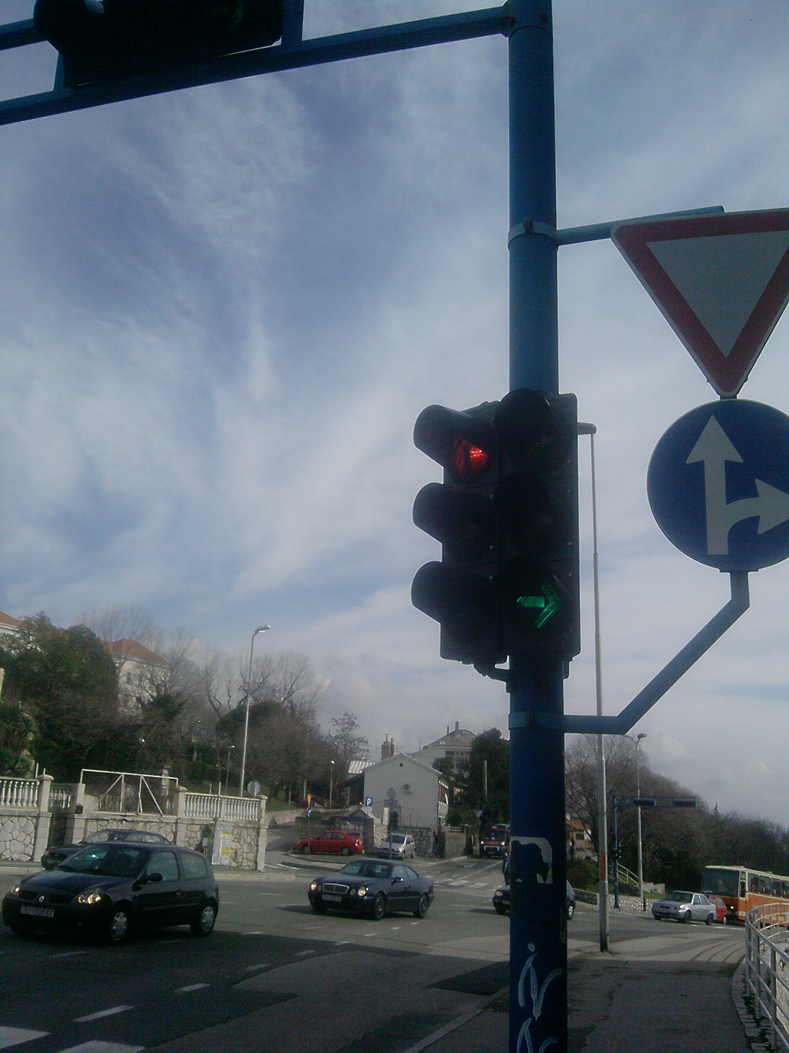 Semafor in Vukovarska